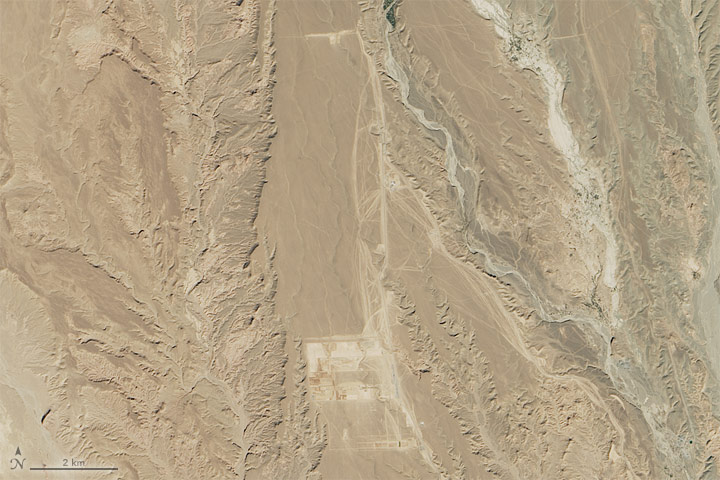 Noor 1 solar power complex, Morocco, at the start of construction (December 2013)